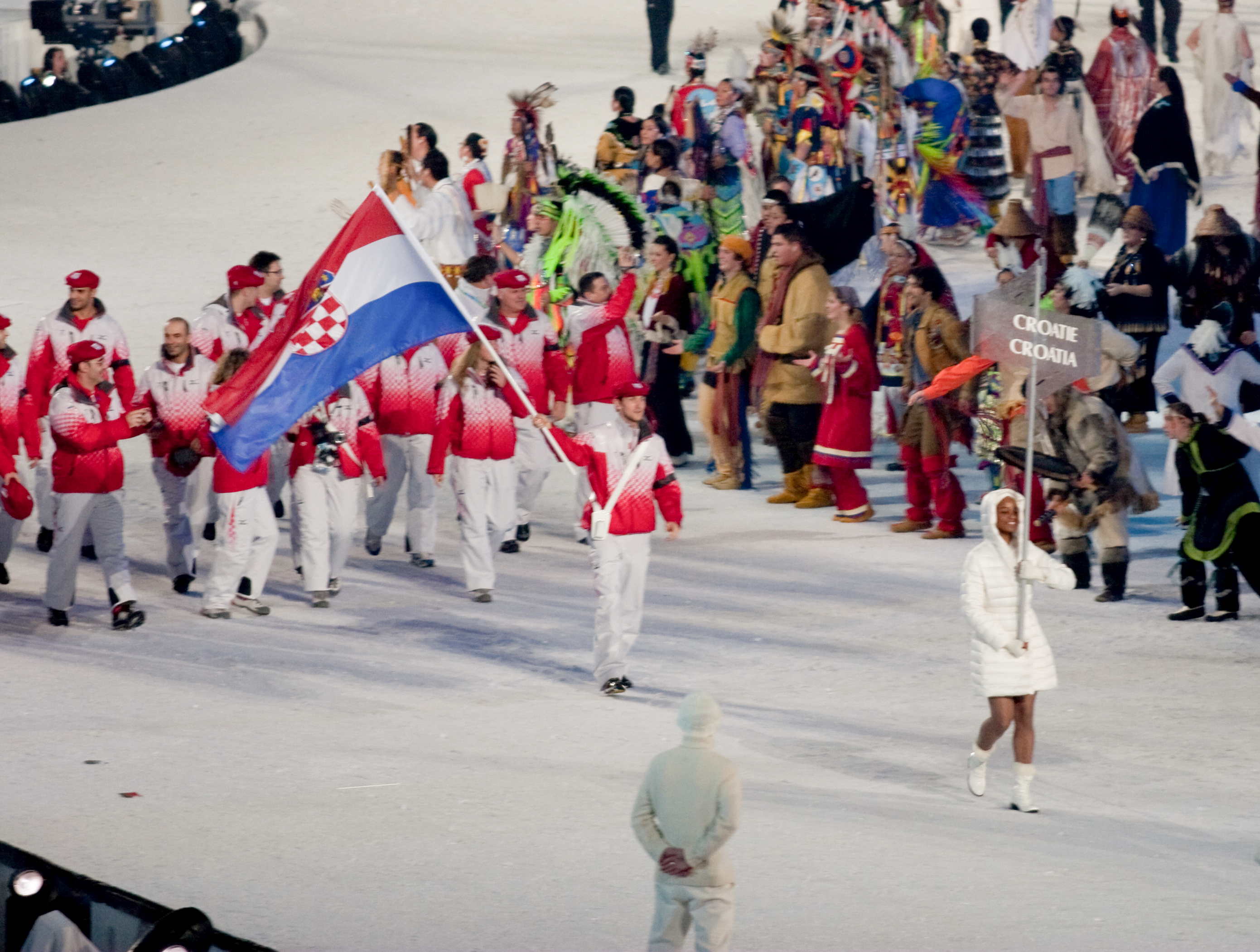 The athletes from Croatia entering the stadium at the opening ceremonies of the 2010 Winter Olympics